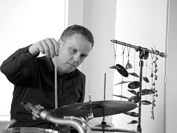 Peter Danemo